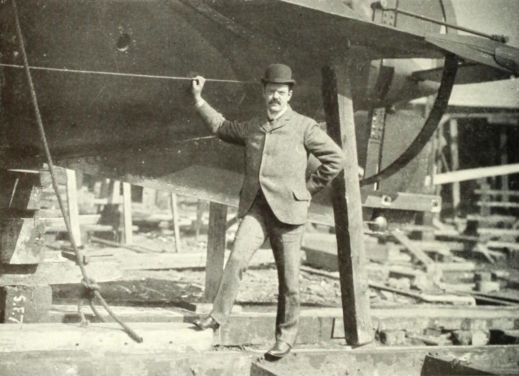 Portrait of Lewis Nixon